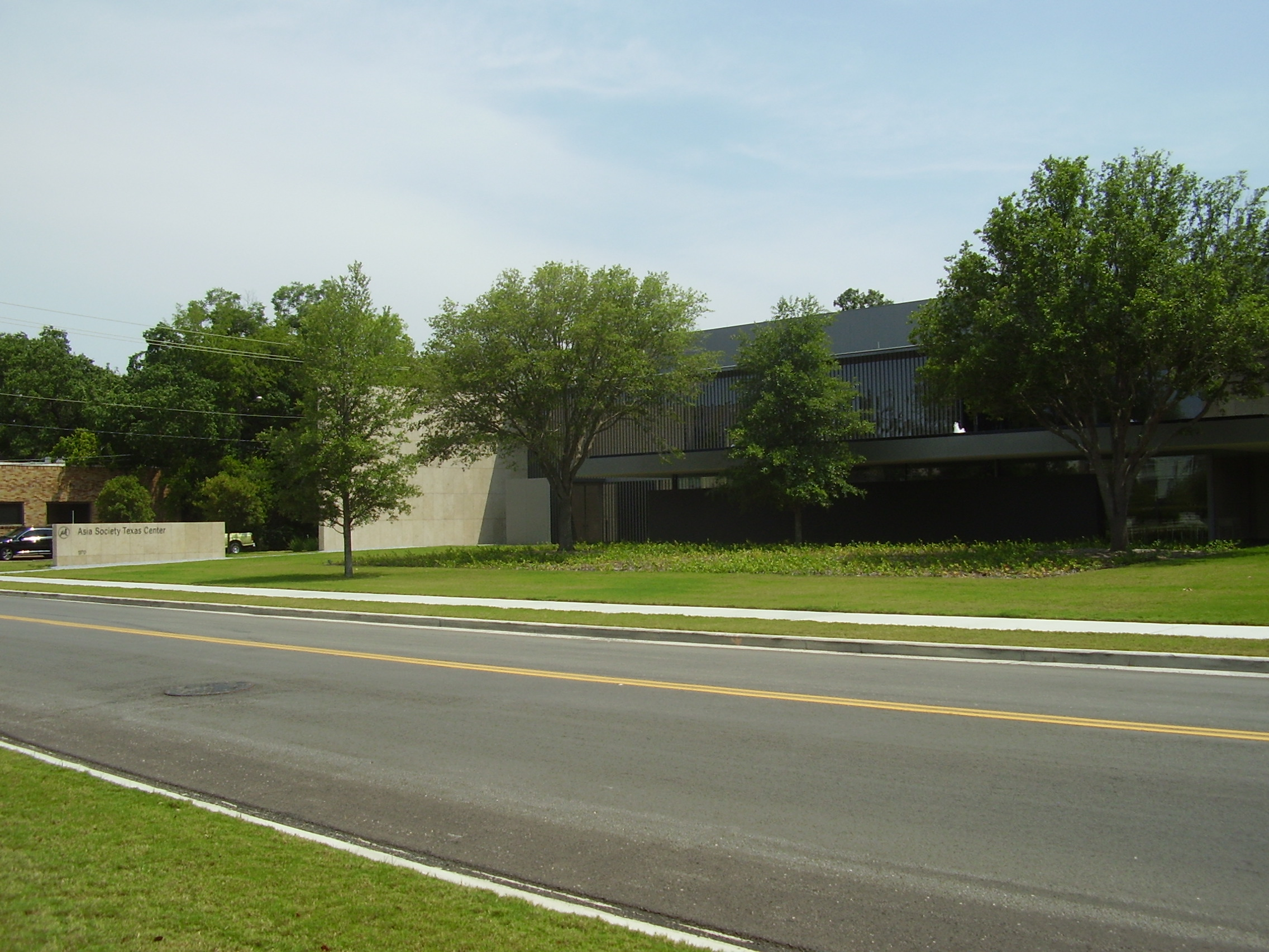 Asia Society Texas Center - 1370 Southmore Boulevard, Houston, TX 77004